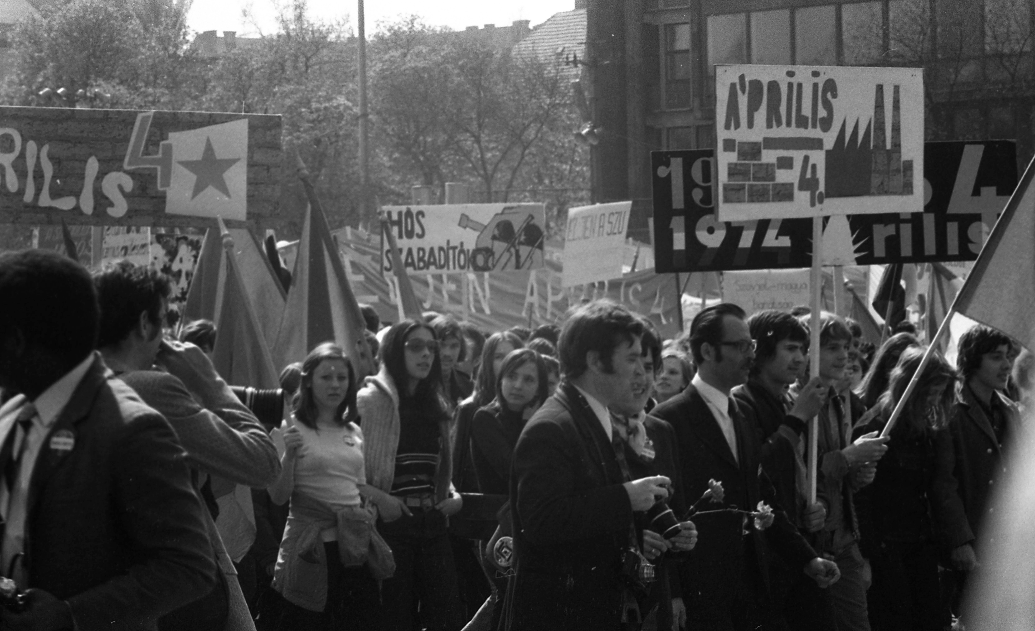 Budapest, Felvonulási tér ("Parade Square"), on April 4th, 1974, parade march on "Liberation Day", alongside with the headquarters building of the "MÉMOSZ", National Assiciation of Trade Unions of the Contsruction Workers